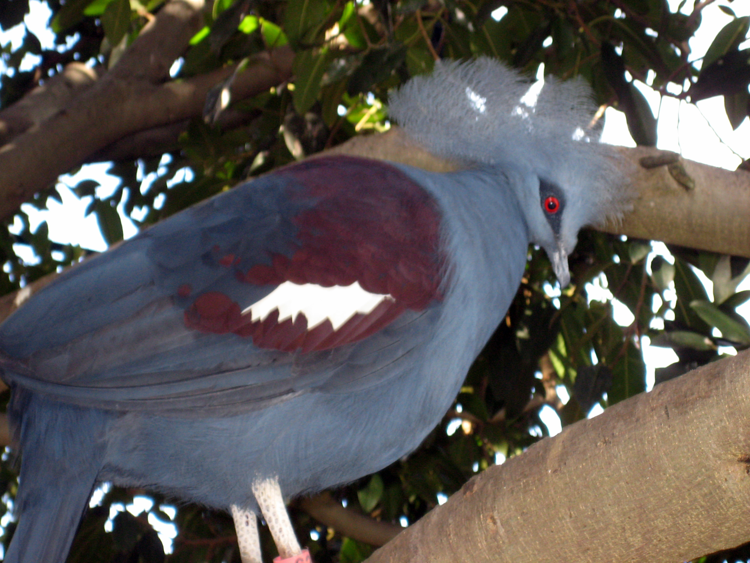 Western Crowned Pigeon (Goura cristata) also called blue crowned pigeon.. At the San Diego Zoo